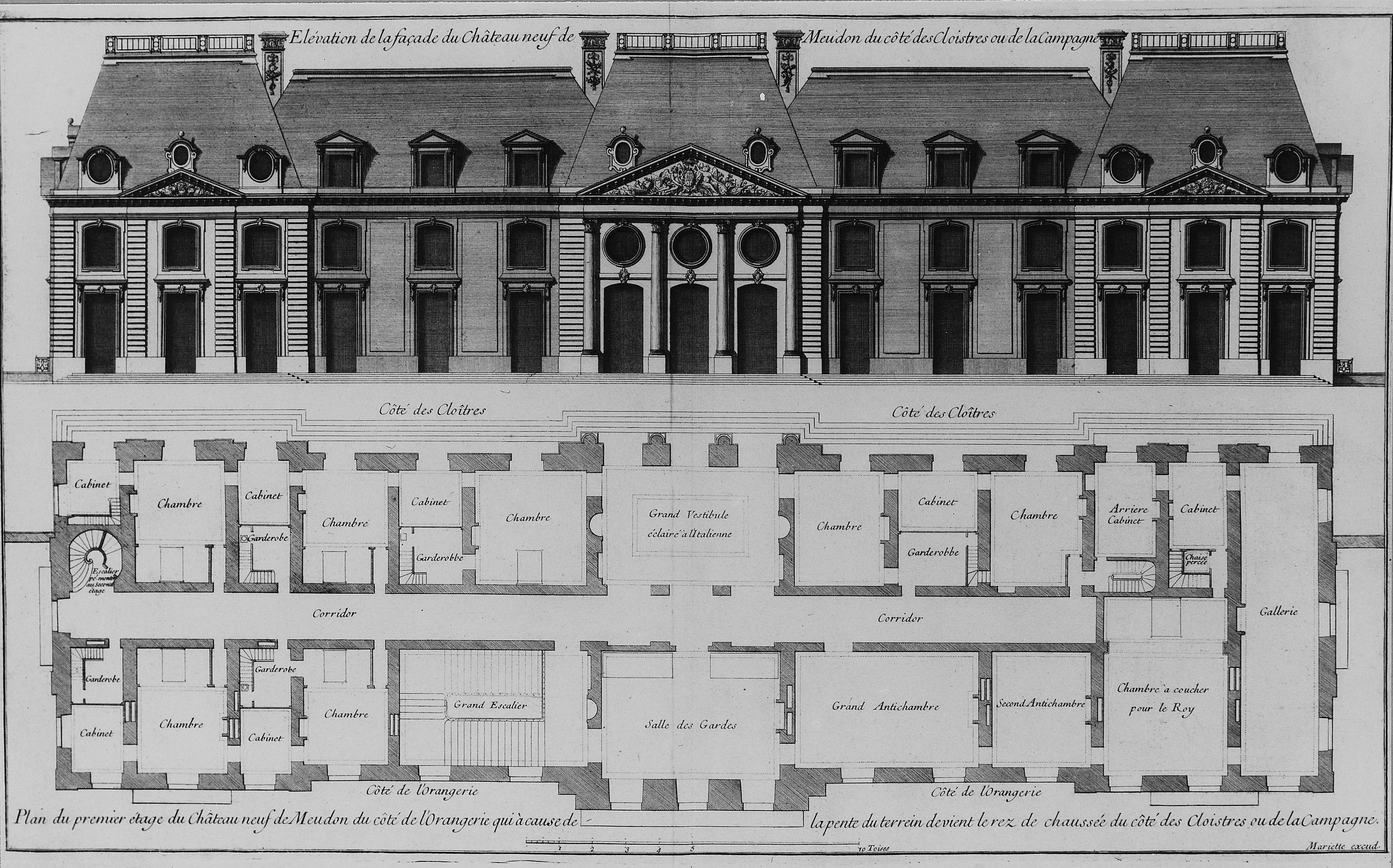 Elevation of courtyard facade and plan of first floor of the Chateau Neuf of Meudon